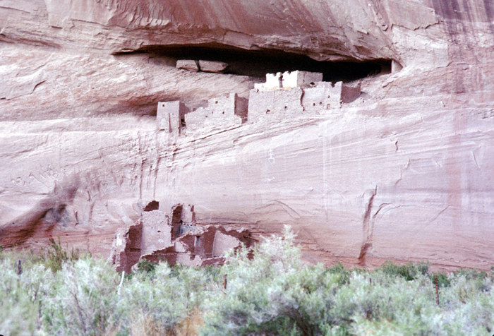 White House Ruins, Canyon de Chelly. The history of human occupation of the canyon began about 2,000 years ago (but may have been earlier). The Anasazi (pueblo dwellers) lived in the canyons for nearly a thousand years, but vanished from the region in the mid 1200s. The modern Navajo peoples migrated into the region after the Anasazi had vanished or migrated elsewhere. Canyon de Chelly National Monument, Arizona. White House Ruins. Digital File:gjr00439 ID. Gill, J.R. 439ct Category:Images of Arizona